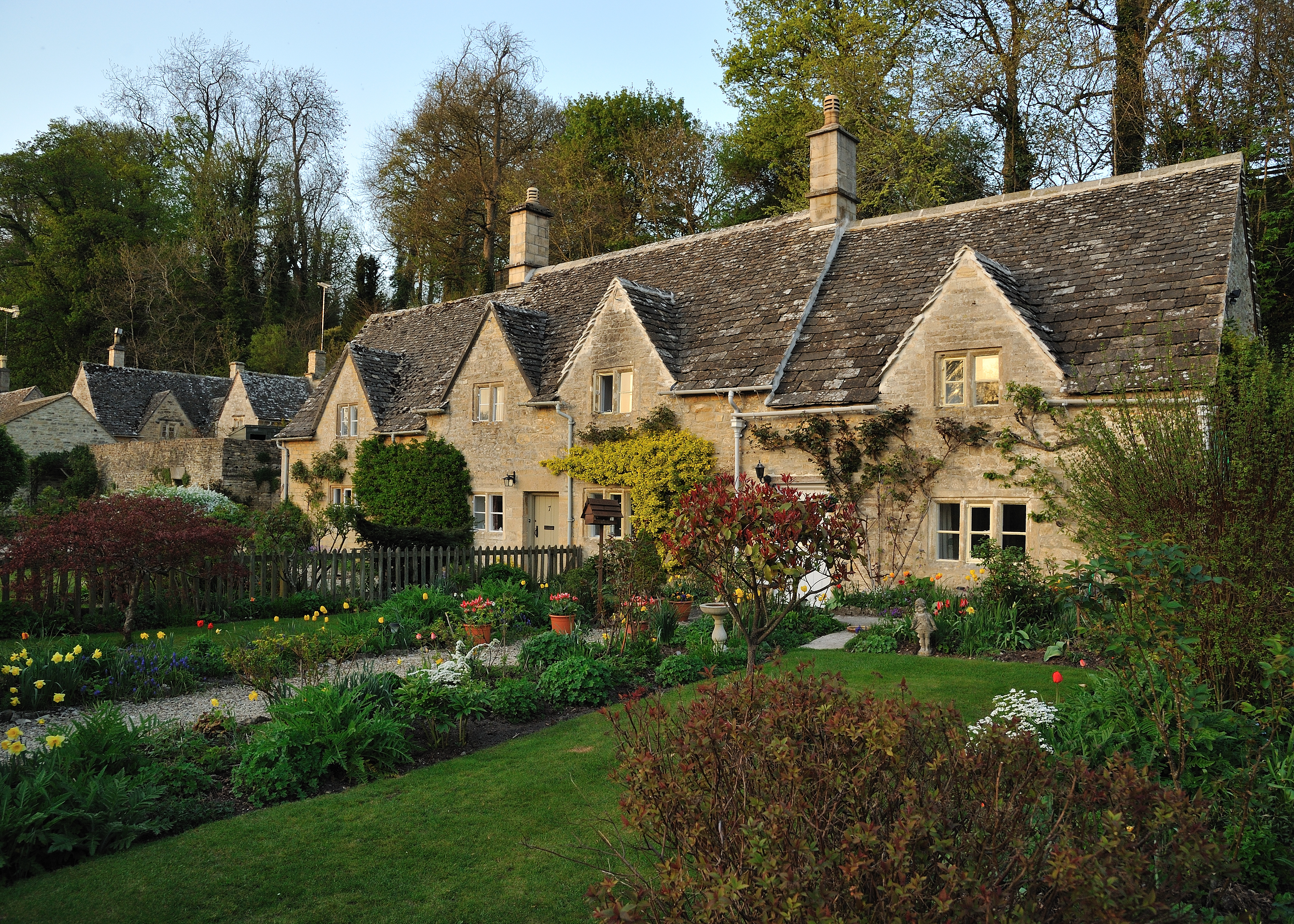 Cottages along the River Coln in Bibury, a Cotswold village.